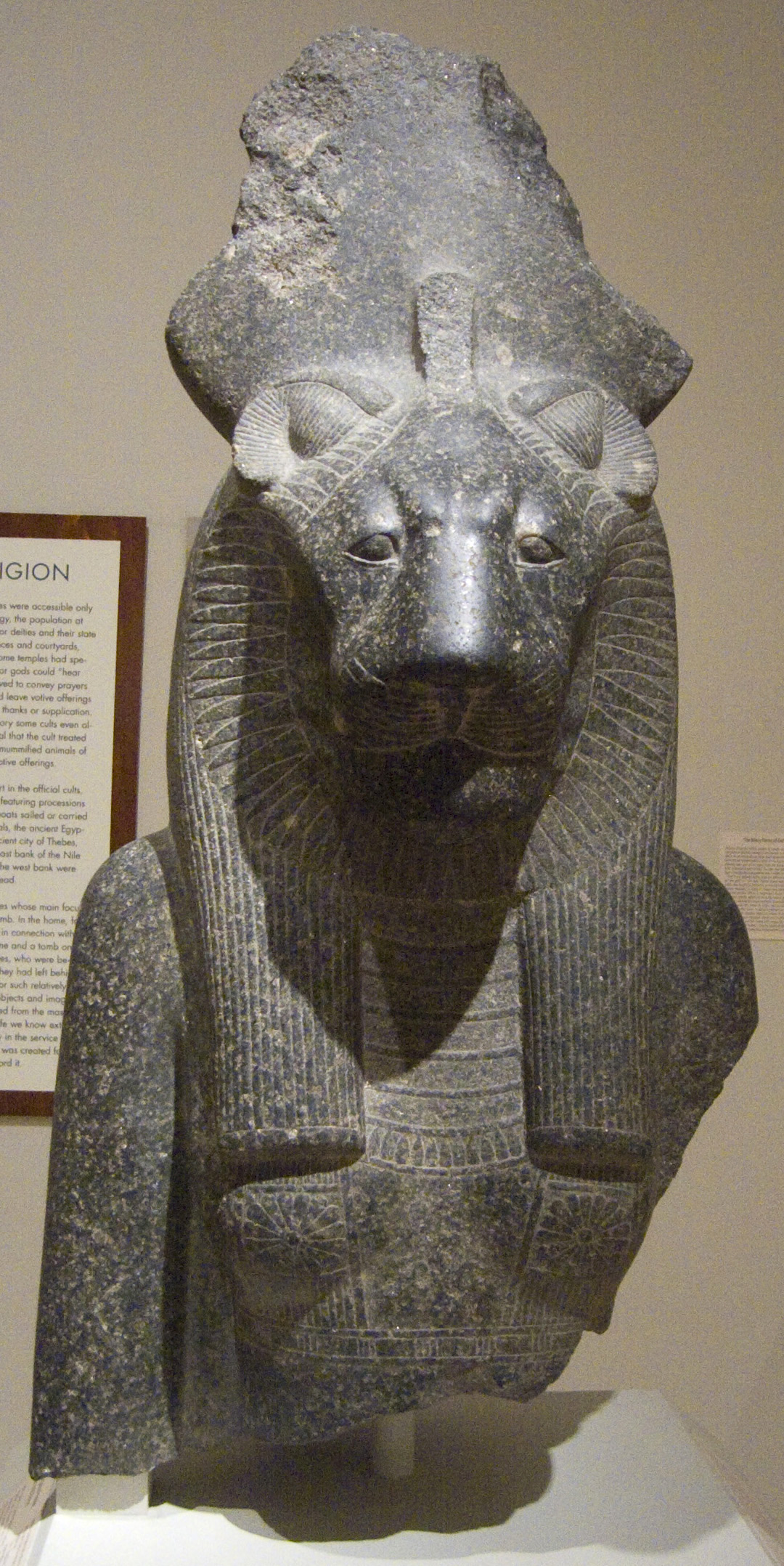 Bust of the Goddess Sakhmet, ca. 1390-1352 B.C.E. Granodiorite, 39 x 19 7/8 x 15 9/16 in. (99 x 50.5 x 39.5 cm). Brooklyn Museum, Gift of Dr. and Mrs. Benson W. Harer, Jr., the Mary Smith Dorward Fund, and the Charles Edwin Wilbour Fund, 1991.311.